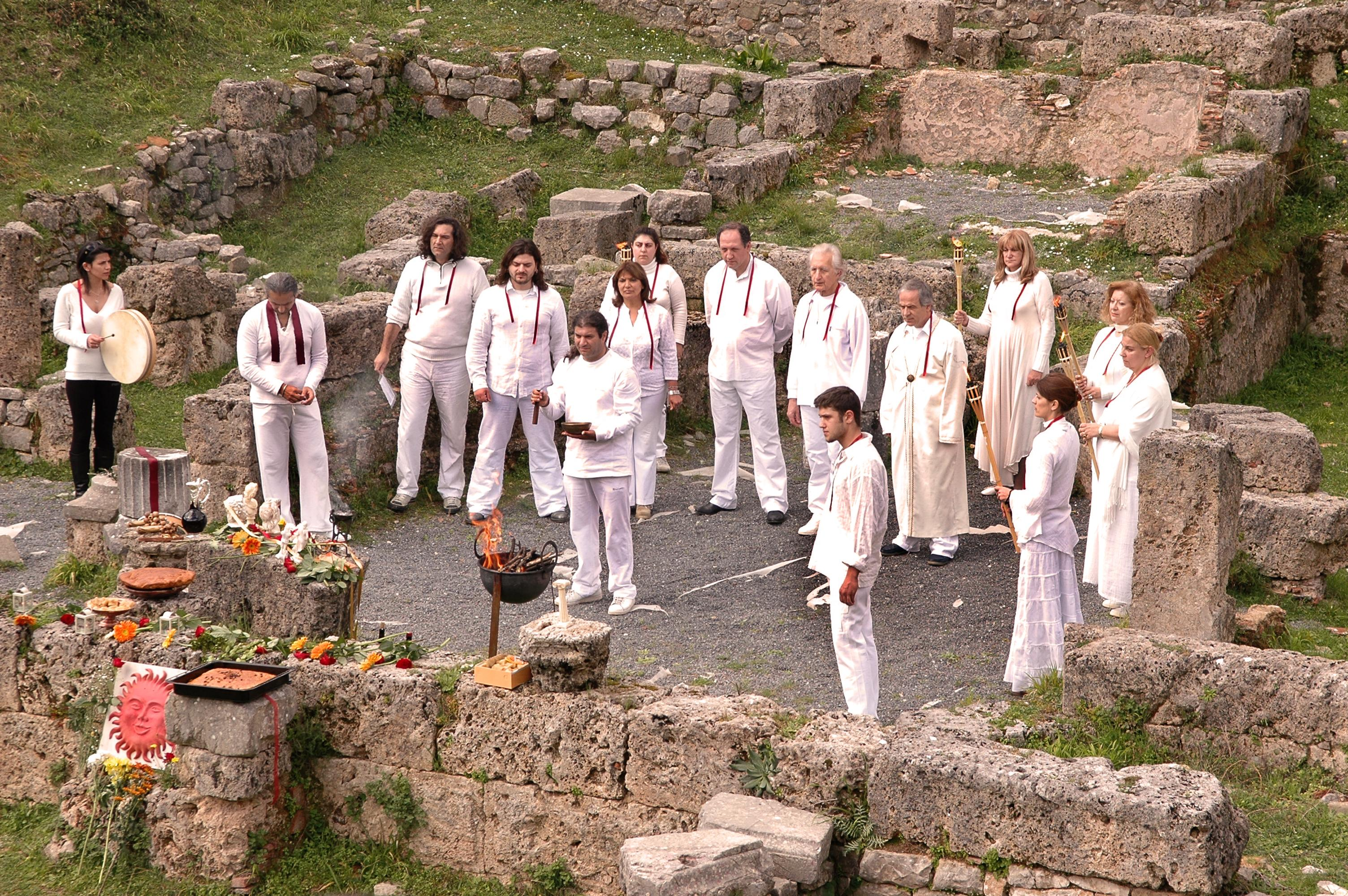 Hellen ritual performed by members of the YSEE, Supreme Council of Ethnikoi Hellenes.